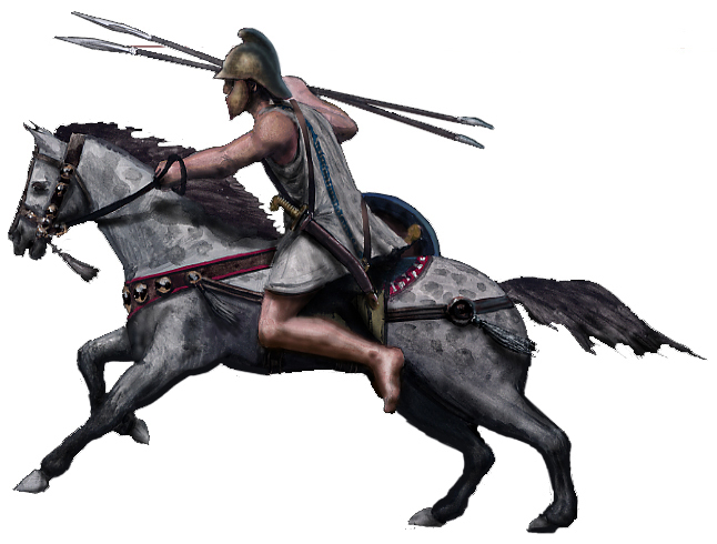 Hellenistic Illyrian cavarlyman from Dalmatia,(The sketch was part of a study for a publication but the project has been cancelled)